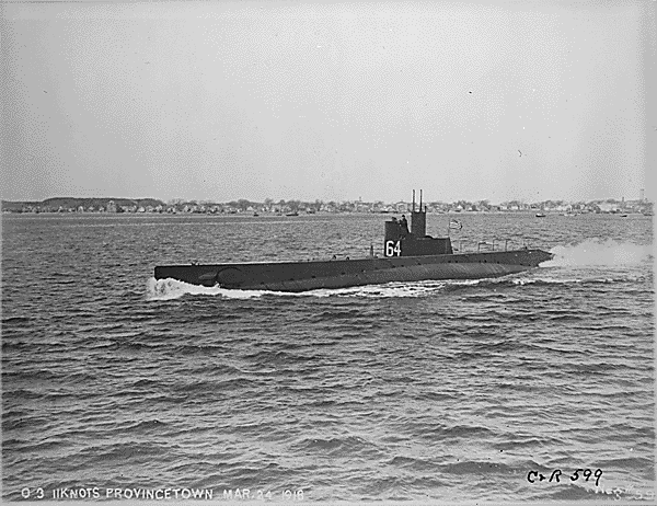 USS _O-3_ (SS-64) underway 1918. View of portside